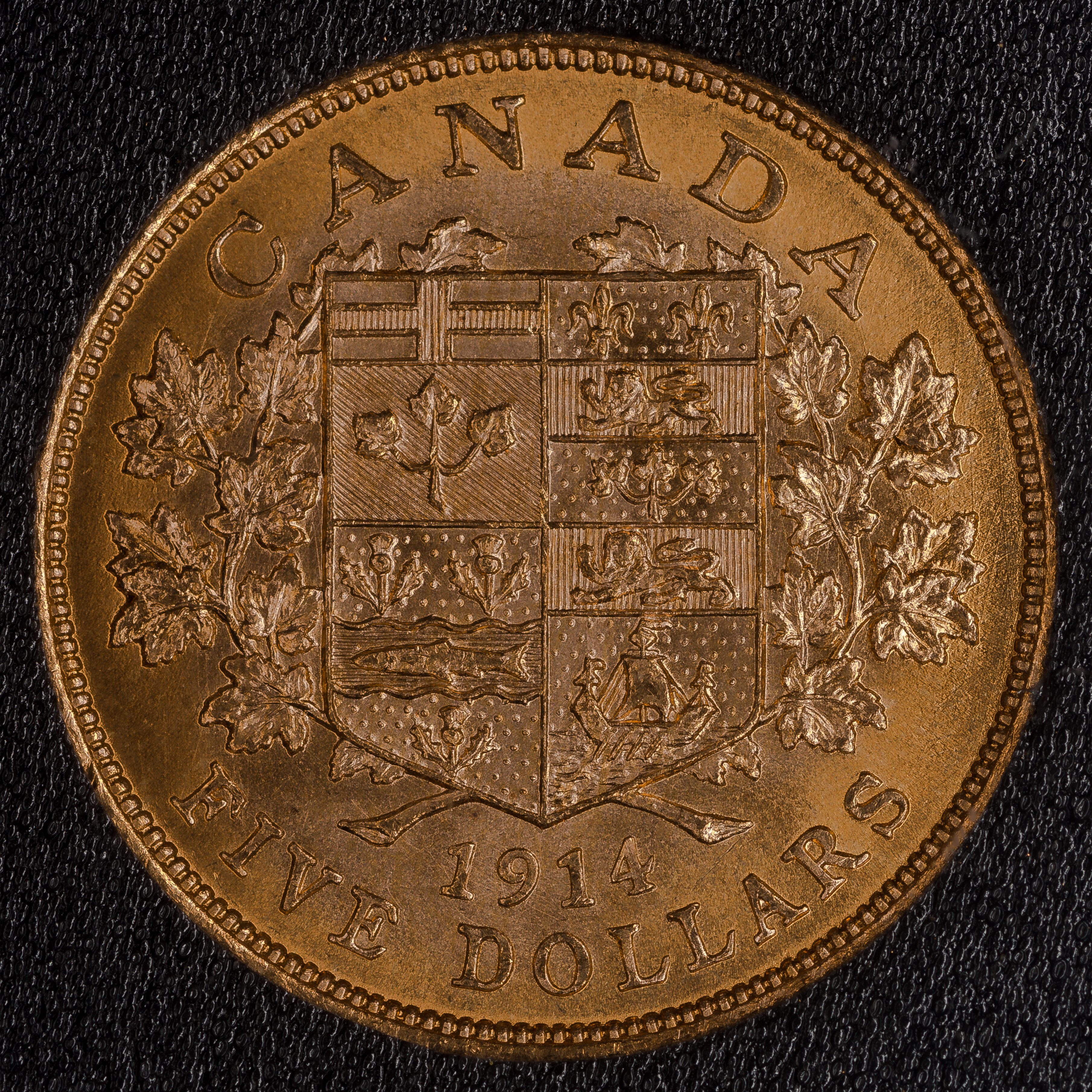 Taken at 1:1 hand held with a Tamron AF 90mm f/2.8 Di SP A/M 1:1 macro on a Canon 5D Mark III body using a MR-14EX ring flash.